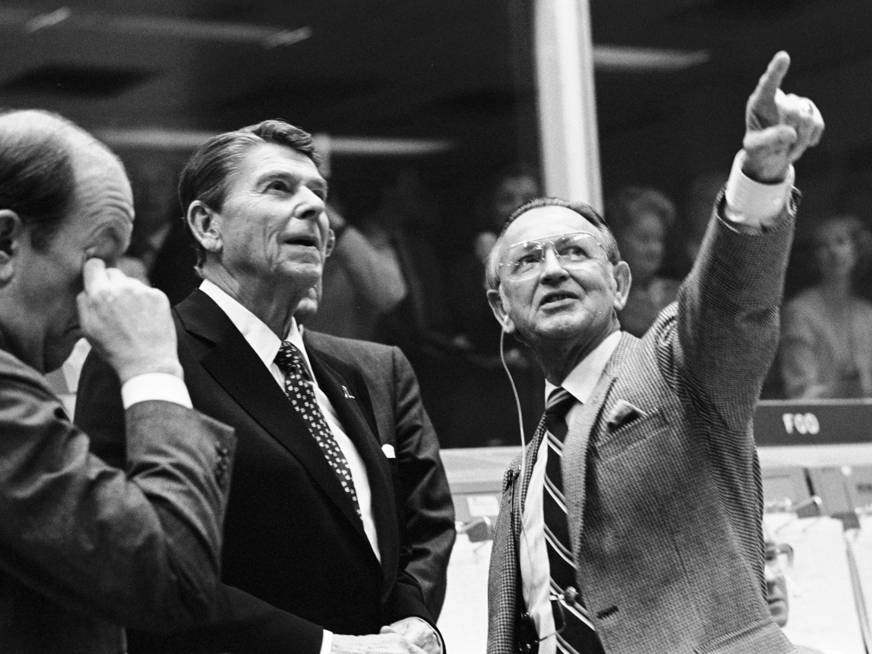 President Ronald Reagan is briefed by JSC Director Christopher C. Kraft Jr., who points toward the orbiter spotter on the projection plotter in the front of the mission operations control room in the Johnson Space Center's Mission Control Center. This picture was taken just prior to a space-to-ground conversation between STS-2 crew members Joe H. Engle and Richard H. Truly, who were orbiting Earth in the space shuttle Columbia.